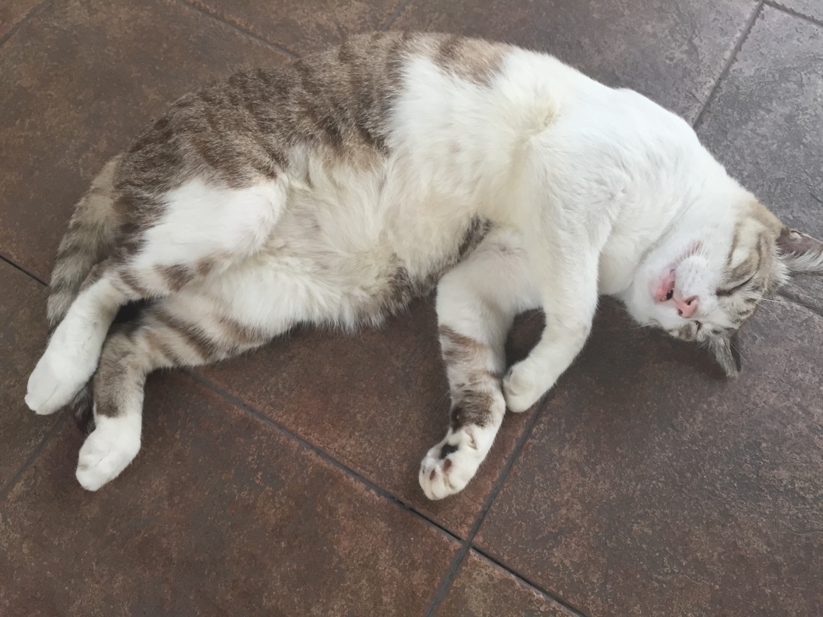 Bobby the hall cat from Hall 15, Nanyang Technological University, Singapore. His favourite activity is sunbathing along corridors.